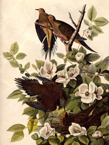 Zenaida macroura carolinensis, on a flowering bush of Stuartia malacodendron. Plate 17 from Volume IV, Audubon's Birds of America. Pictured are Carolina Pigeons [Mourning Dove subspecies]